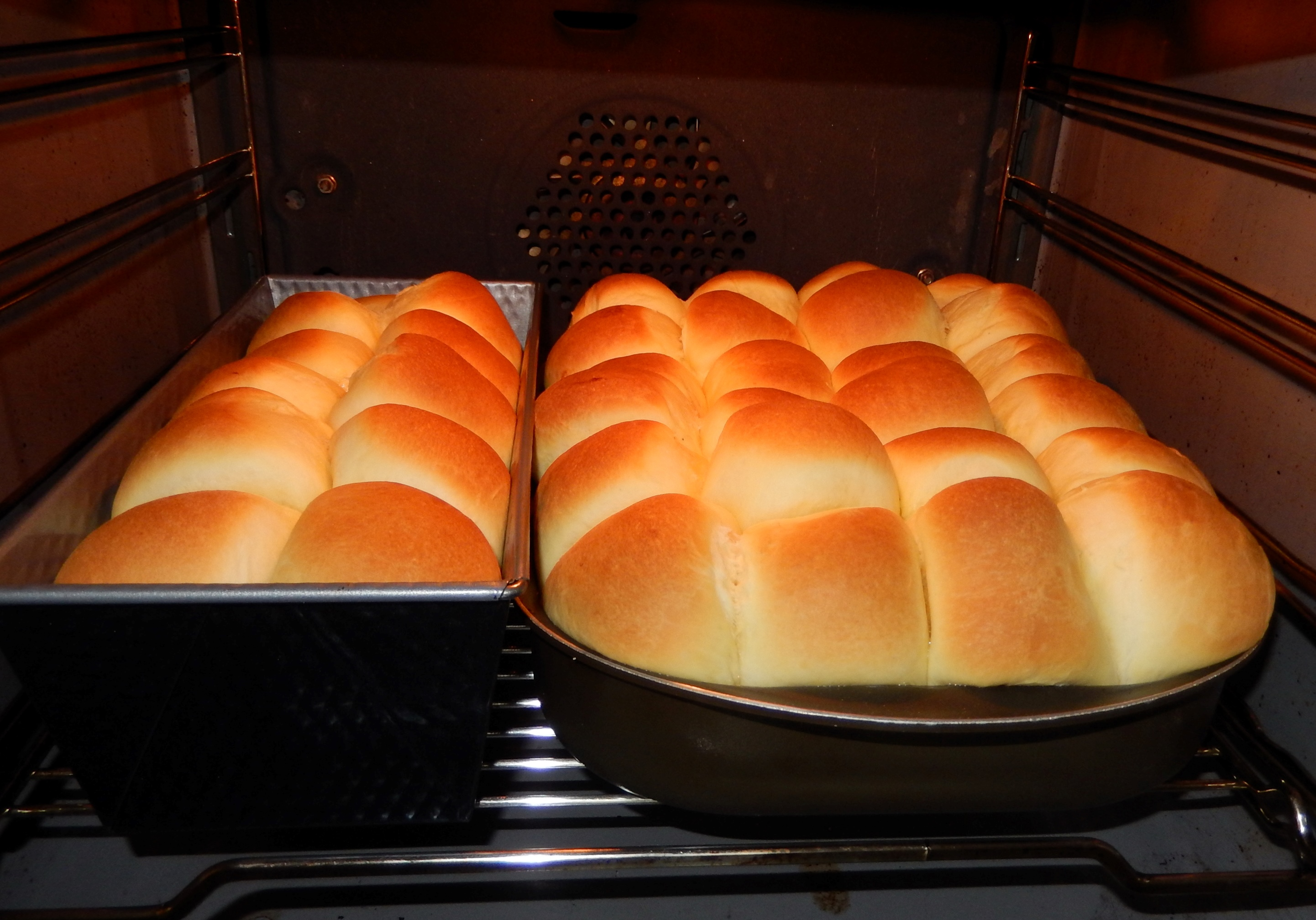 Buchteln